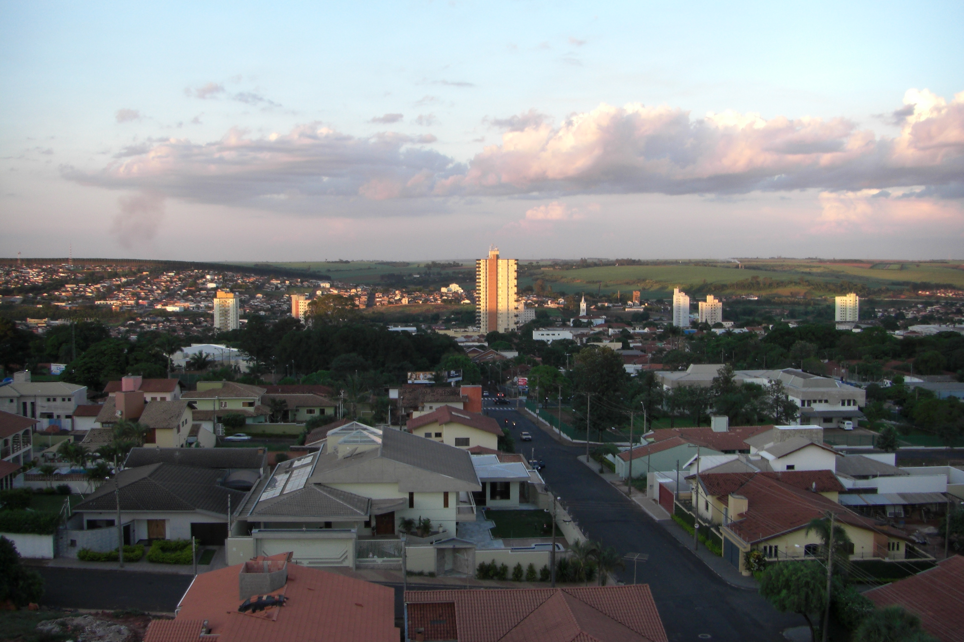 Lençóis Paulista skyline - São Paulo State, Brazil.